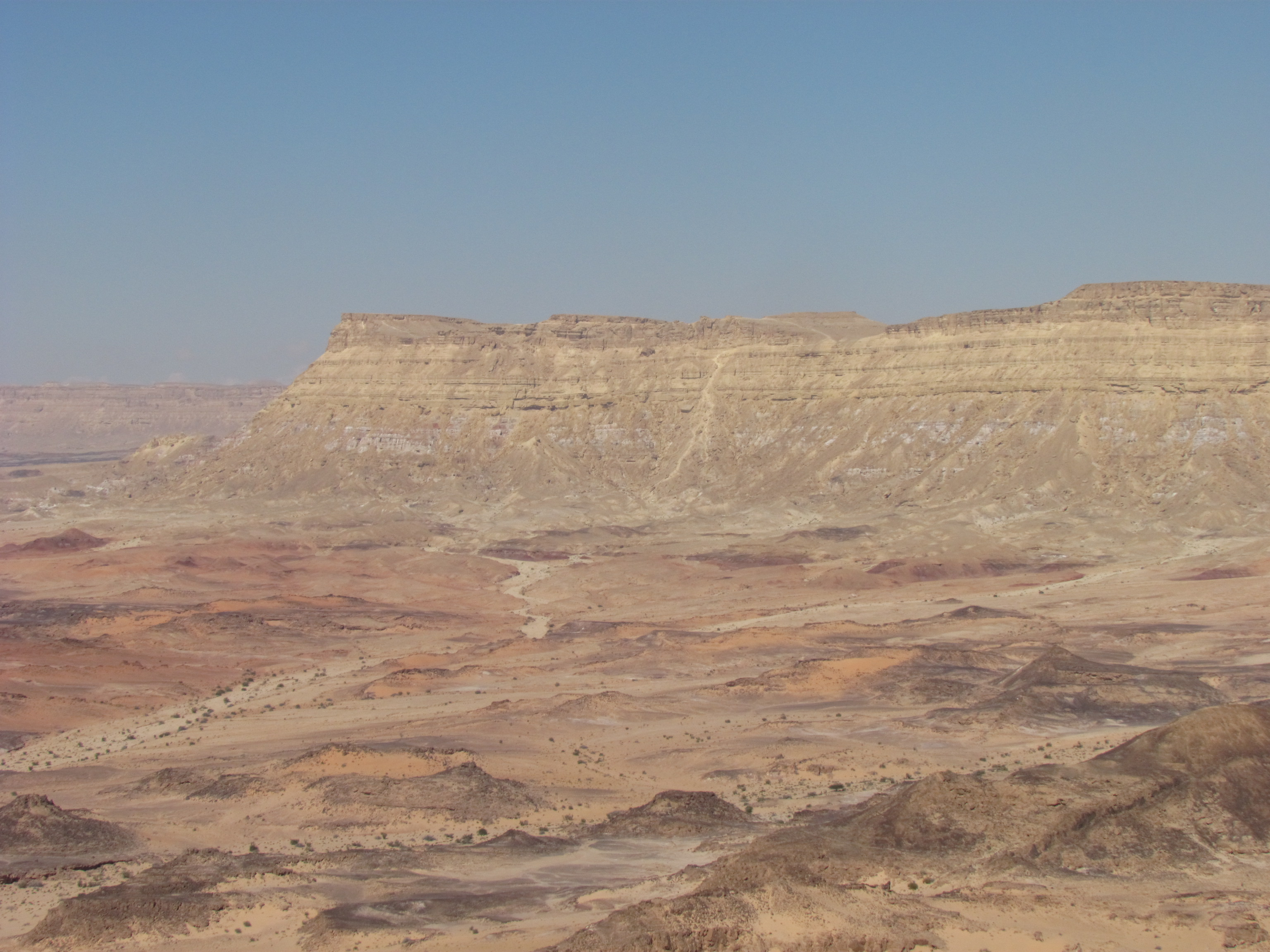 Mt. Ardon in Makhtesh Ramon, as seen from Harerim comb